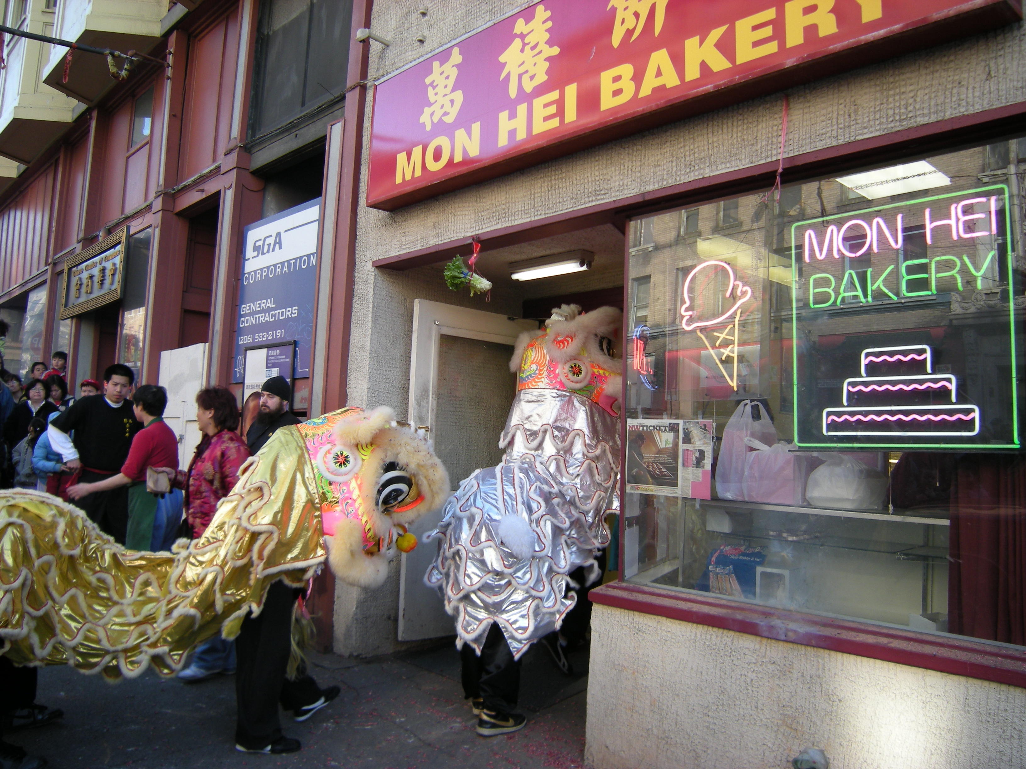 Lion dancers entering Mon Hei Bakery on King Street, Chinese New Year, International District, Seattle, Washington.